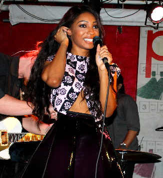 Wynter Gordon performing in New York City